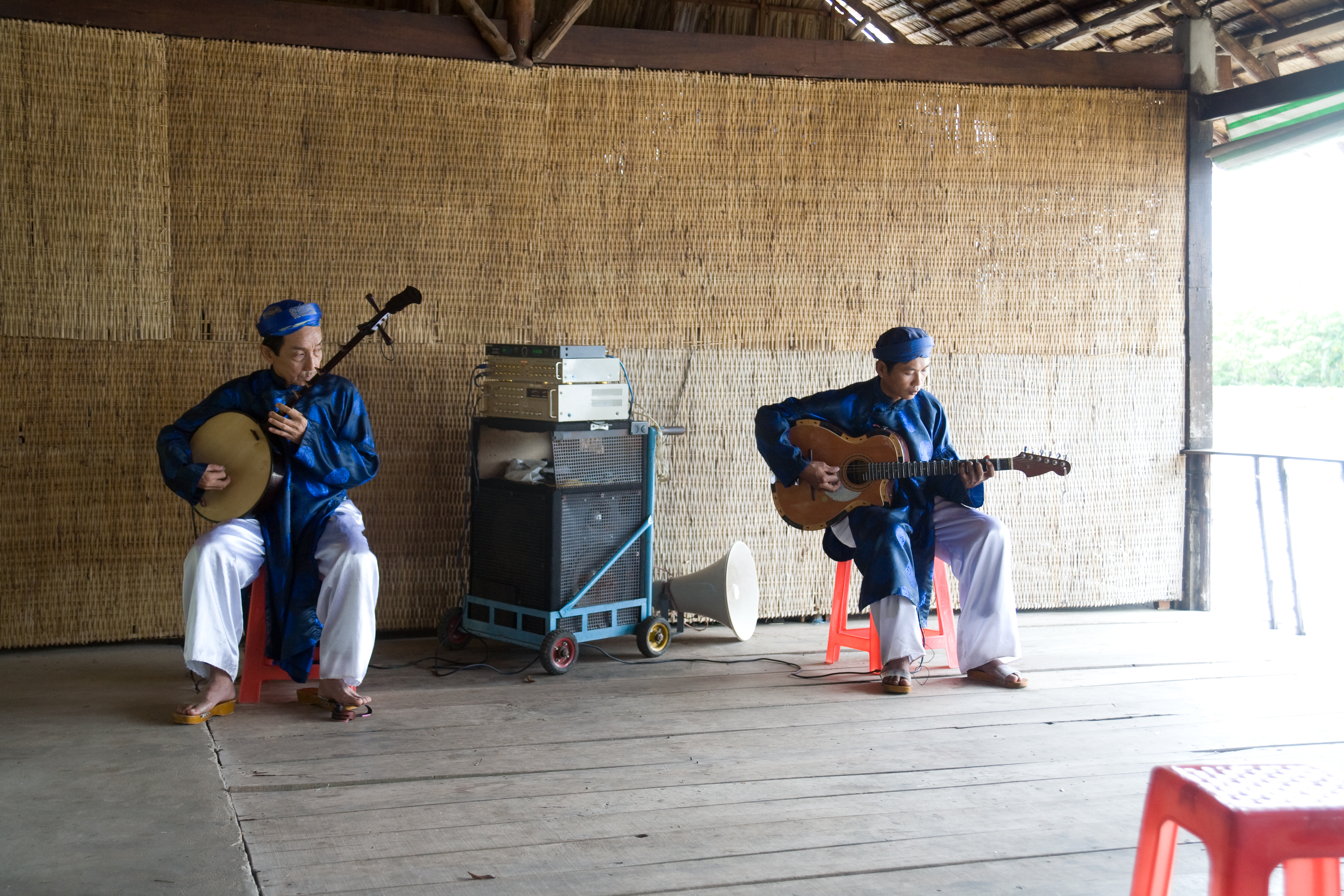 A music performance at the bank of Mekong river